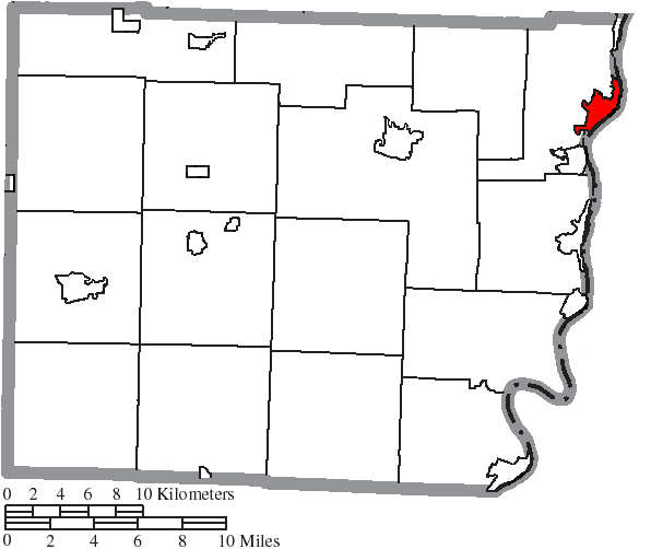 Map of the municipal and township boundaries of Belmont County, Ohio, United States, as of the 2000 census, with the location of the city of Martins Ferry highlighted. Township borders are shown only in unincorporated areas in order to differentiate incorporated and unincorporated areas more clearly.